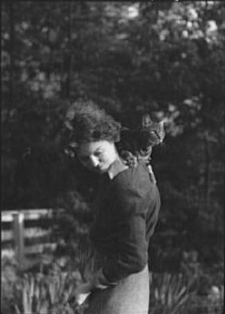 Arnold Genthe (1869-1942)/LOC agc.7a00339. Eva Le Gallienne with cat, 1937